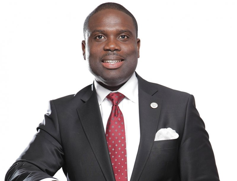 Nii Arday page